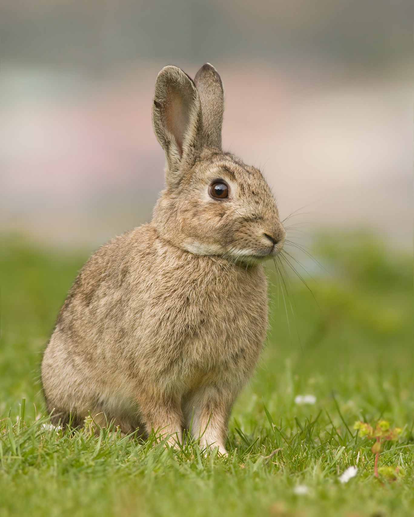 European Rabbit (Oryctolagus cuniculus) in Austin's Ferry, Tasmania, Australia